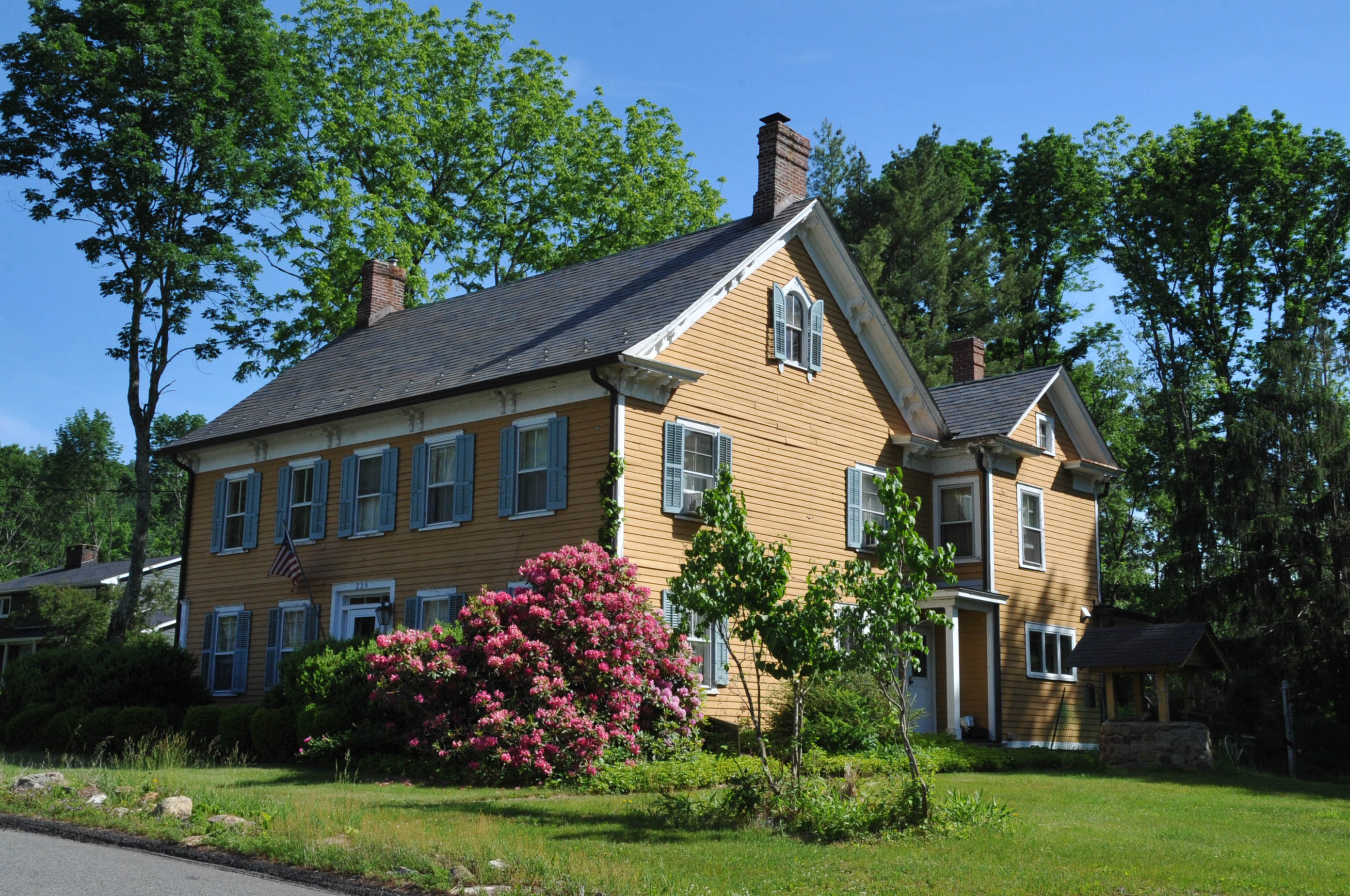 THE EARLIEST SECTION OF THIS HOUSE WAS BUILT BY LEWIS CAREY IN 1790 AND AN ADDITION WAS COMPLETE BY 1880. WHEN THE CENTRAL RAILROAD OF NEW JERSEY CAME THROUGH ROXBURY IN 1876, A STOP WAS ESTABLISHED ON THIS PROPERTY. CAREY’S GRANDSON WILLIAM USED THE RAILROAD TO SHIP FIRESAND, USED IN THE PRODUCTION OF BRICKS, AND KAOLIN, A CLAY FROM WHICH PORCELAIN WAS MADE THAT WAS DUG ON HIS LAND.